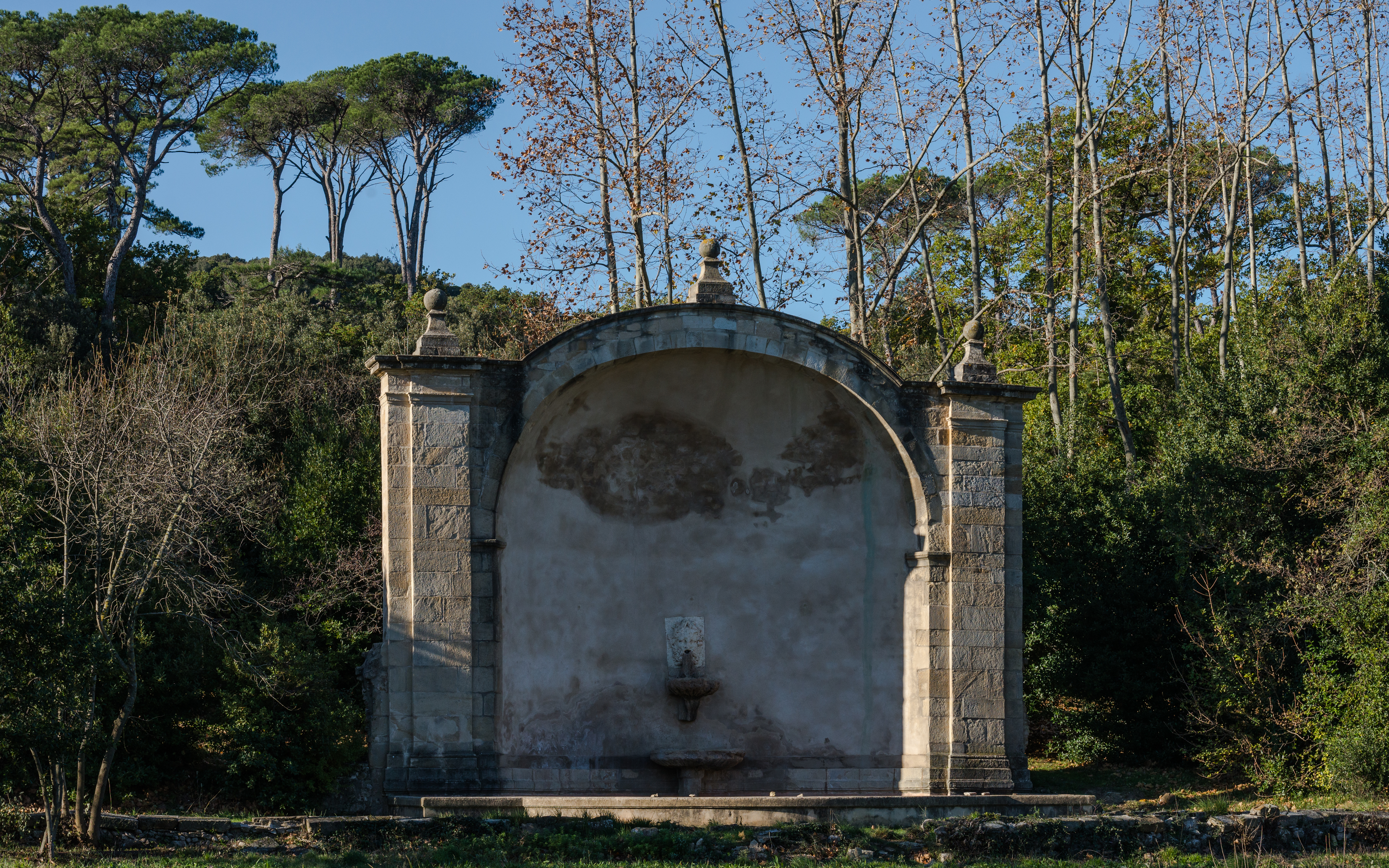 Vestiges of the fountain of the "Manufacture des draps de Villeneuvette" (1667). Villeneuvette, Hérault, France. .